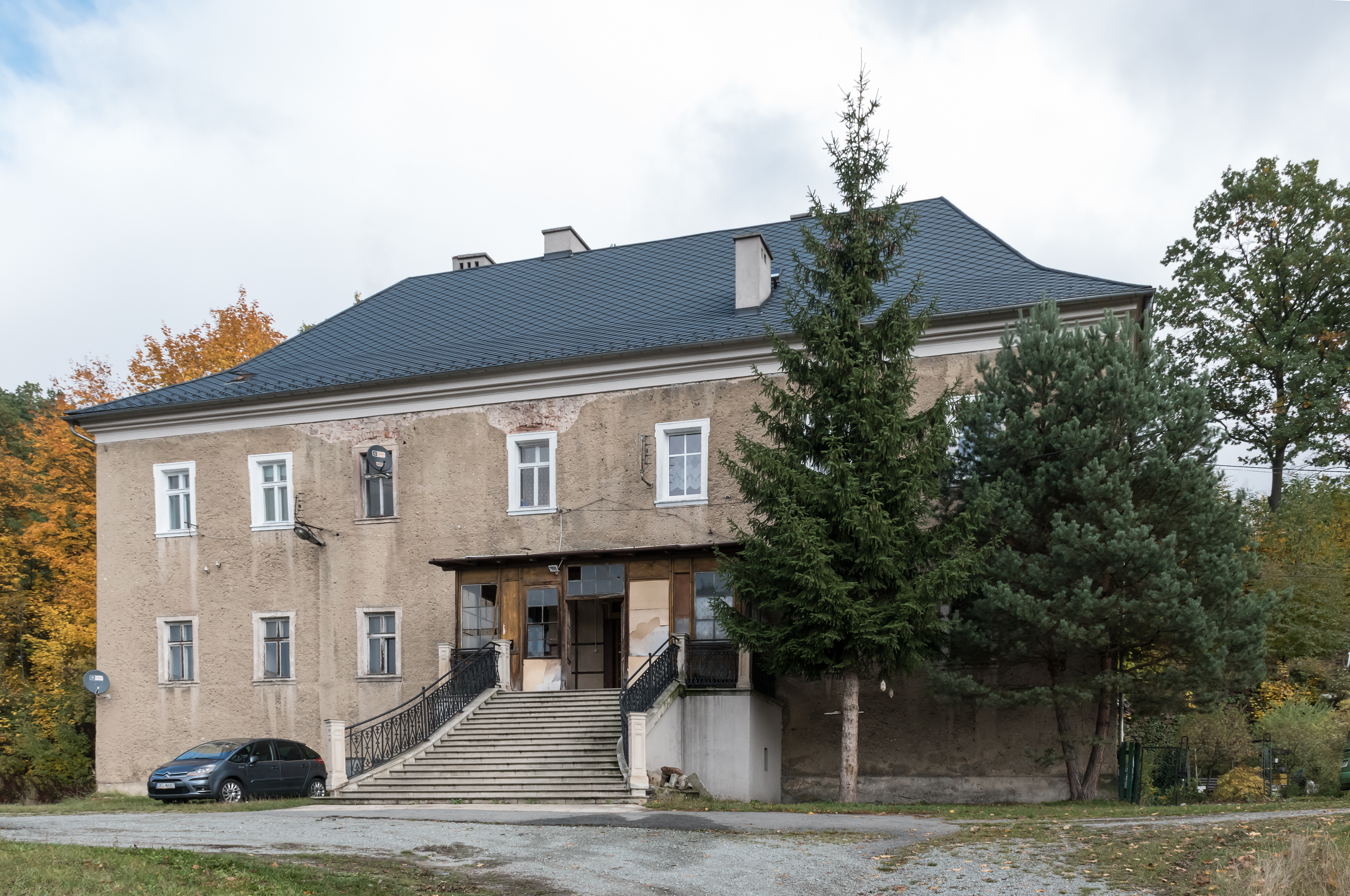 Manor in Nowa Ruda (Drogosław)